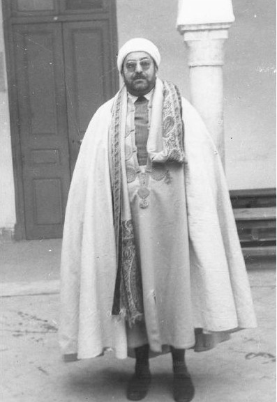 Muhamed_Fadhl_Ben_Achour